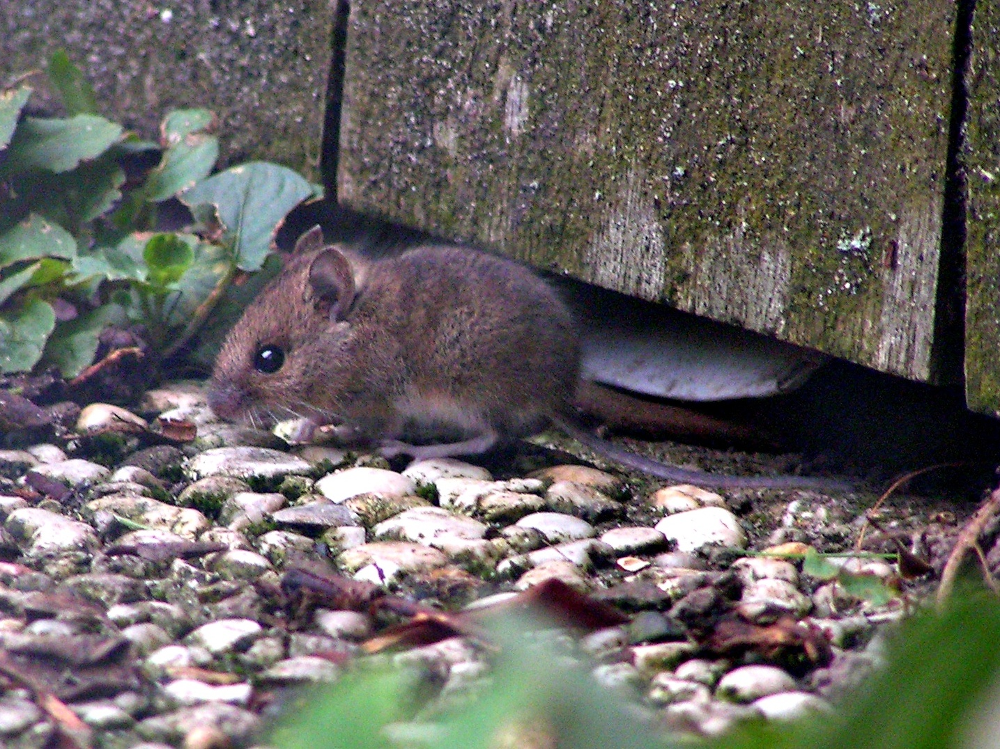 Apodemus sylvaticus by Pethan October 9, 2005 The Netherlands